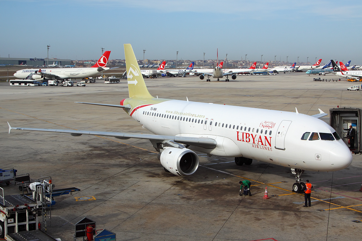 An Airbus A320-212 in Libyan Airlines livery at Atatürk International Airport (IST / LTBA)